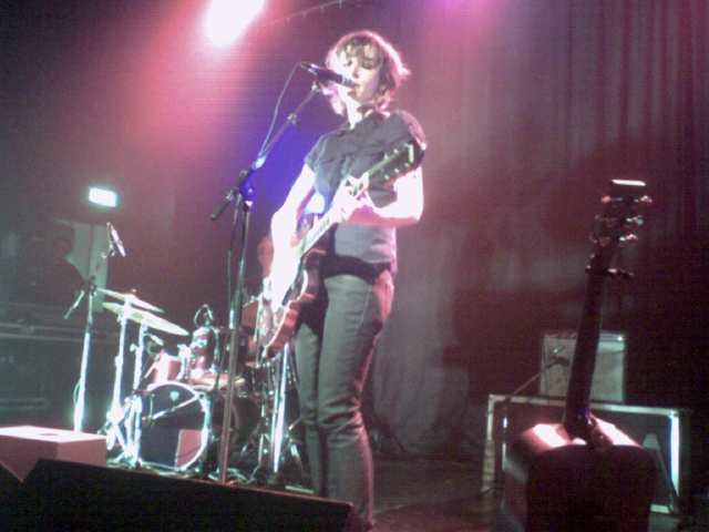 Marike Jager giving an amazing concert at Tivoli de Helling, Utrecht. This quality is the best I could do with my simple mobile phone under bad lighting conditions.